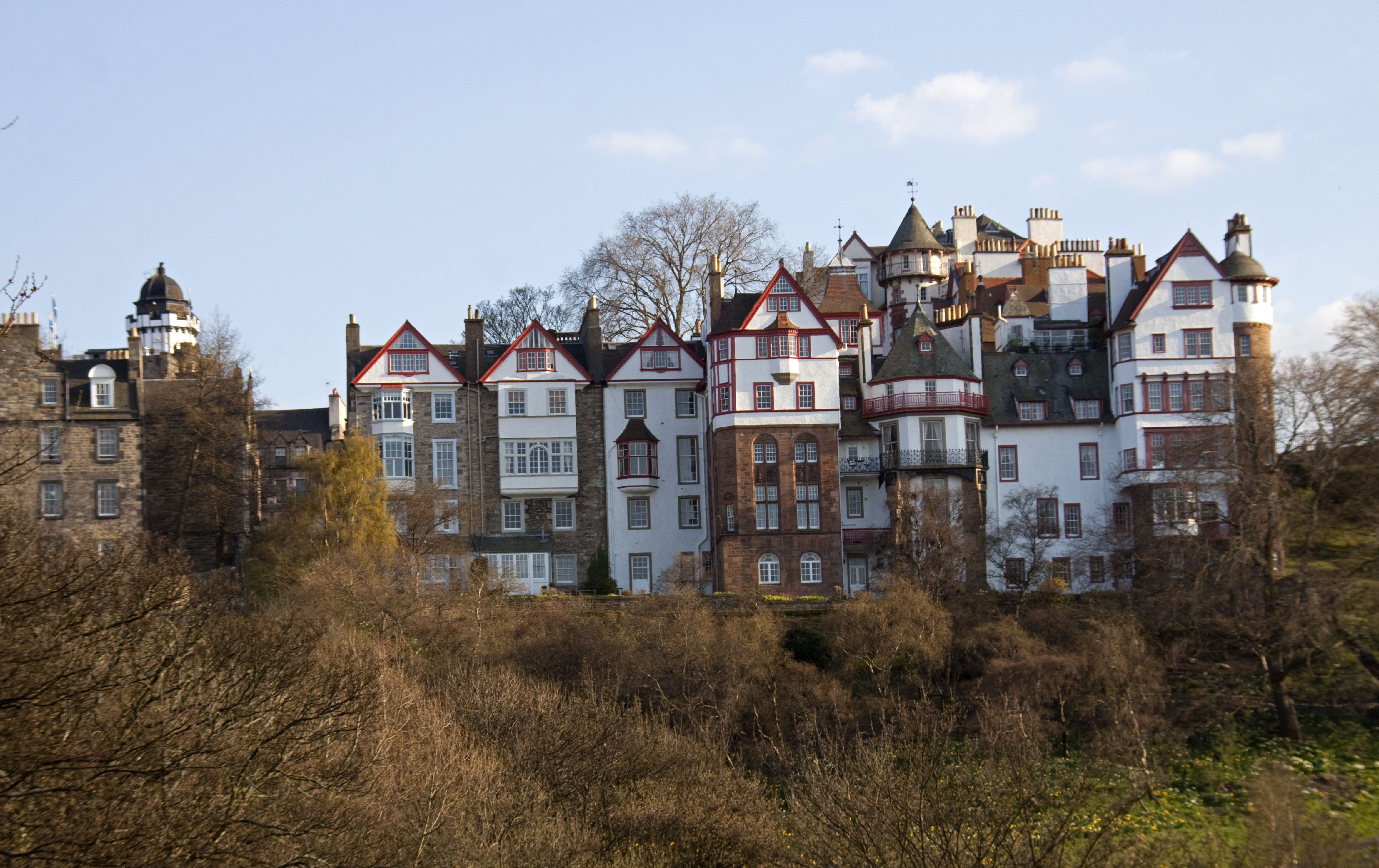 Ramsay garden apartments Edinburgh